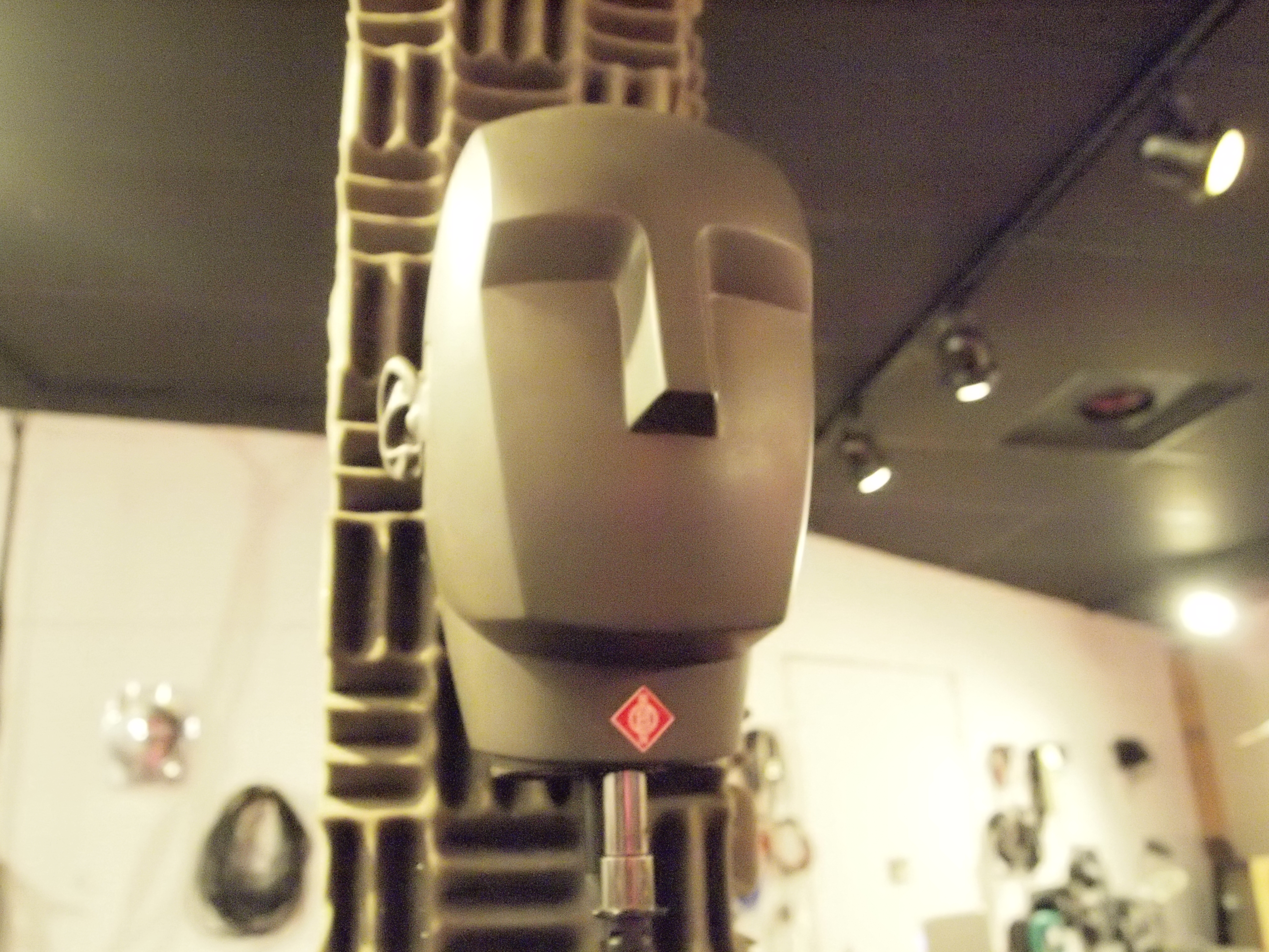 Ira Liss Show, 2011-01-30 Georg Neumann Ku 100 Dummy Head